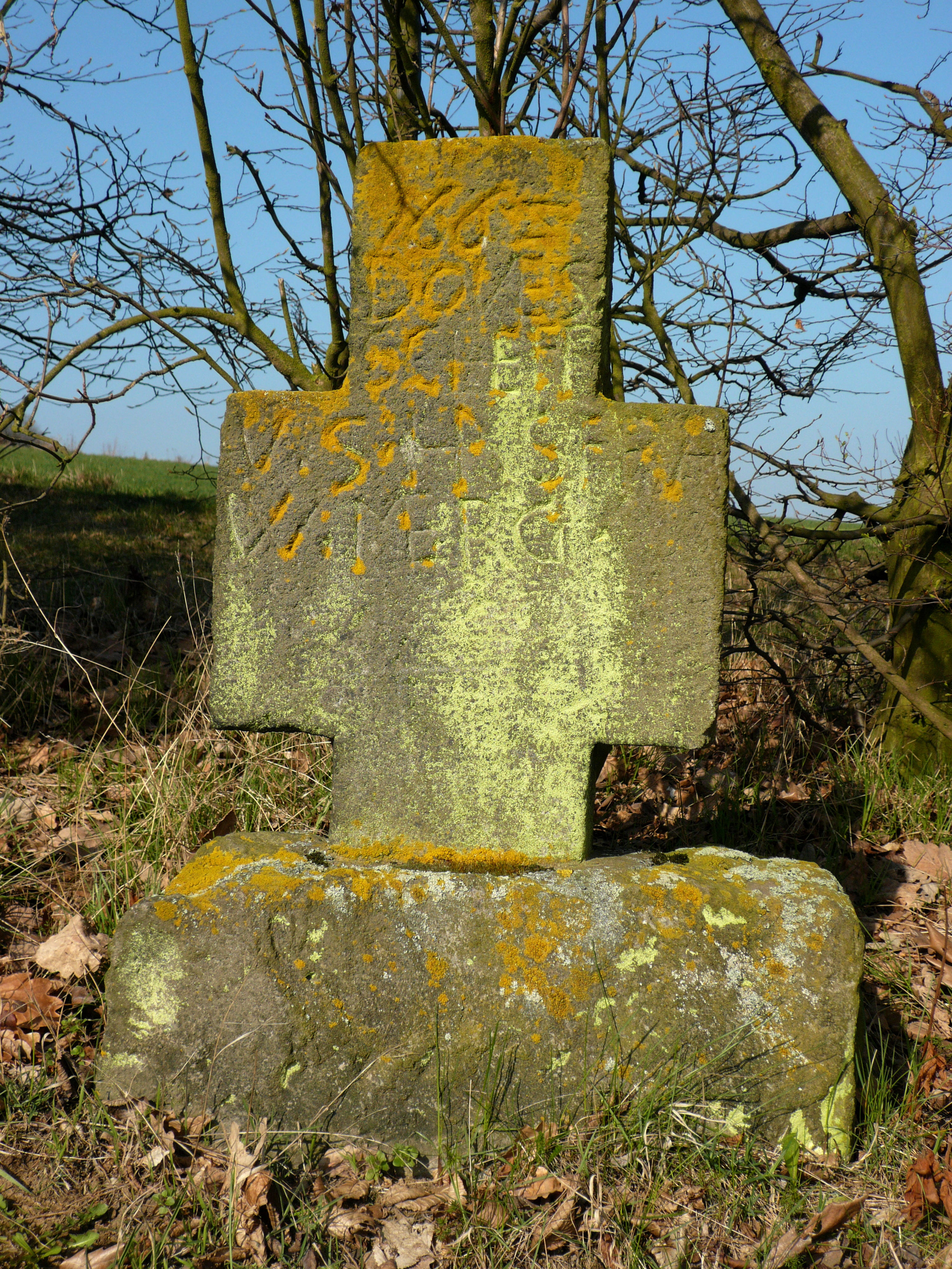 Plague Monument near Dedenbach (Ahrweiler county) from 1665 Text: 166Z DONIES SCHEFF V[ND] S[EINE] HAVSFRAW MERG. [166Z mit inversem Z = 1662 oder 1665, DONIES = Antonius, MERG = Margaretha]